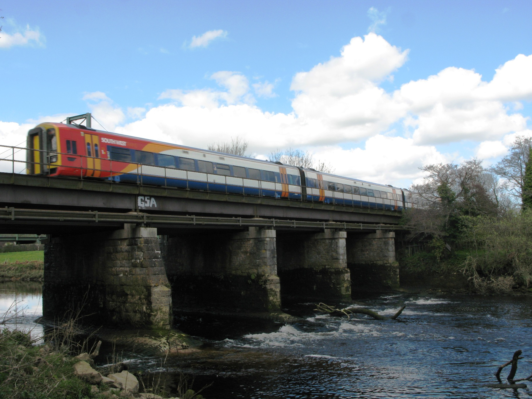 South West Trains' 159103 passes over Totnes Viaduct in Devon, England, while working from London Waterloo to Plymouth.